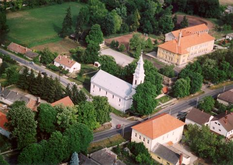 Nagydorog, Hungary, aerialphotography This is a photo of a monument in Hungary. Identifier: 8677